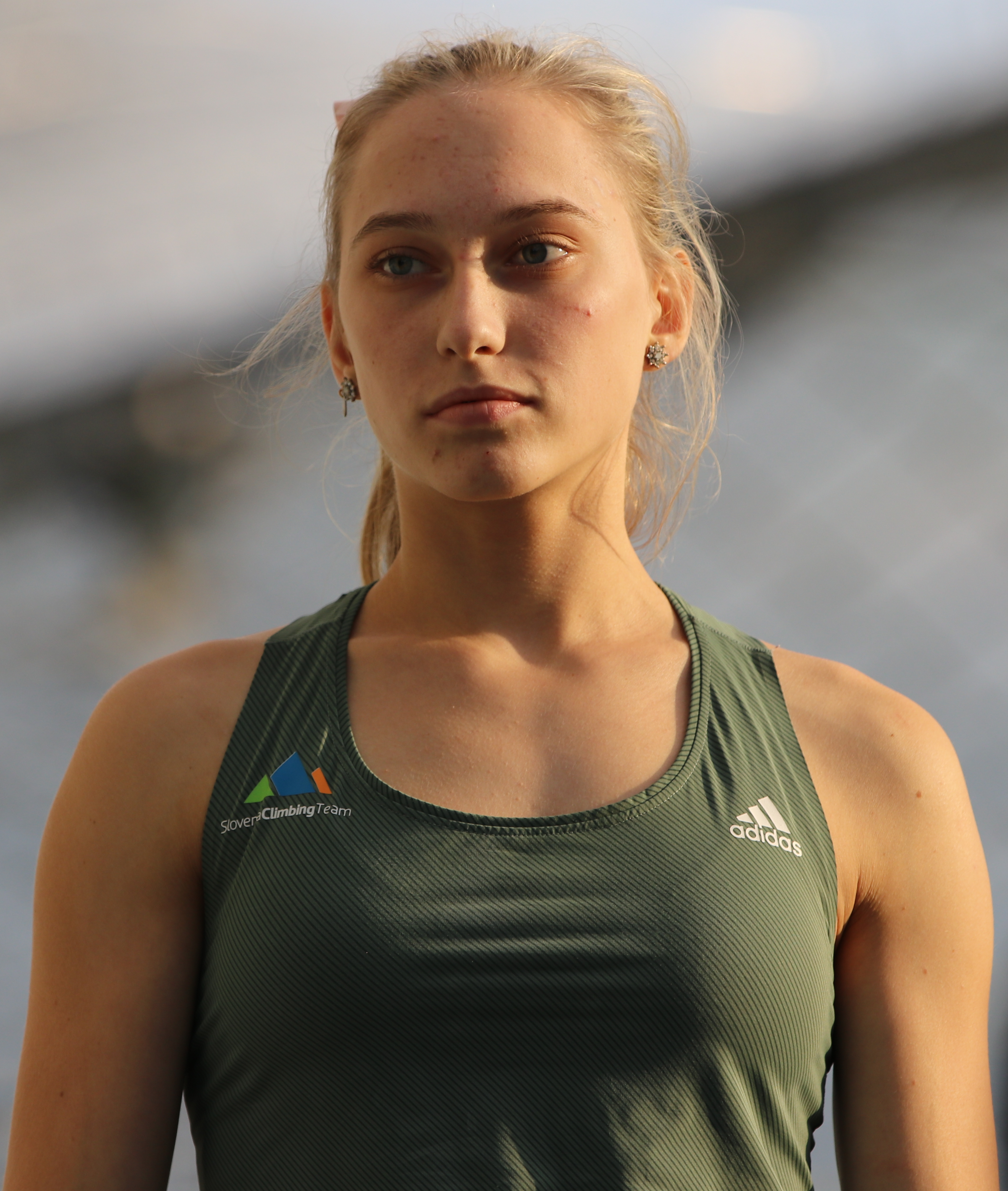 Janja Garnbret, sports climber from Slovenia, at the Boulder Worldcup 2017 in Munich, Germany